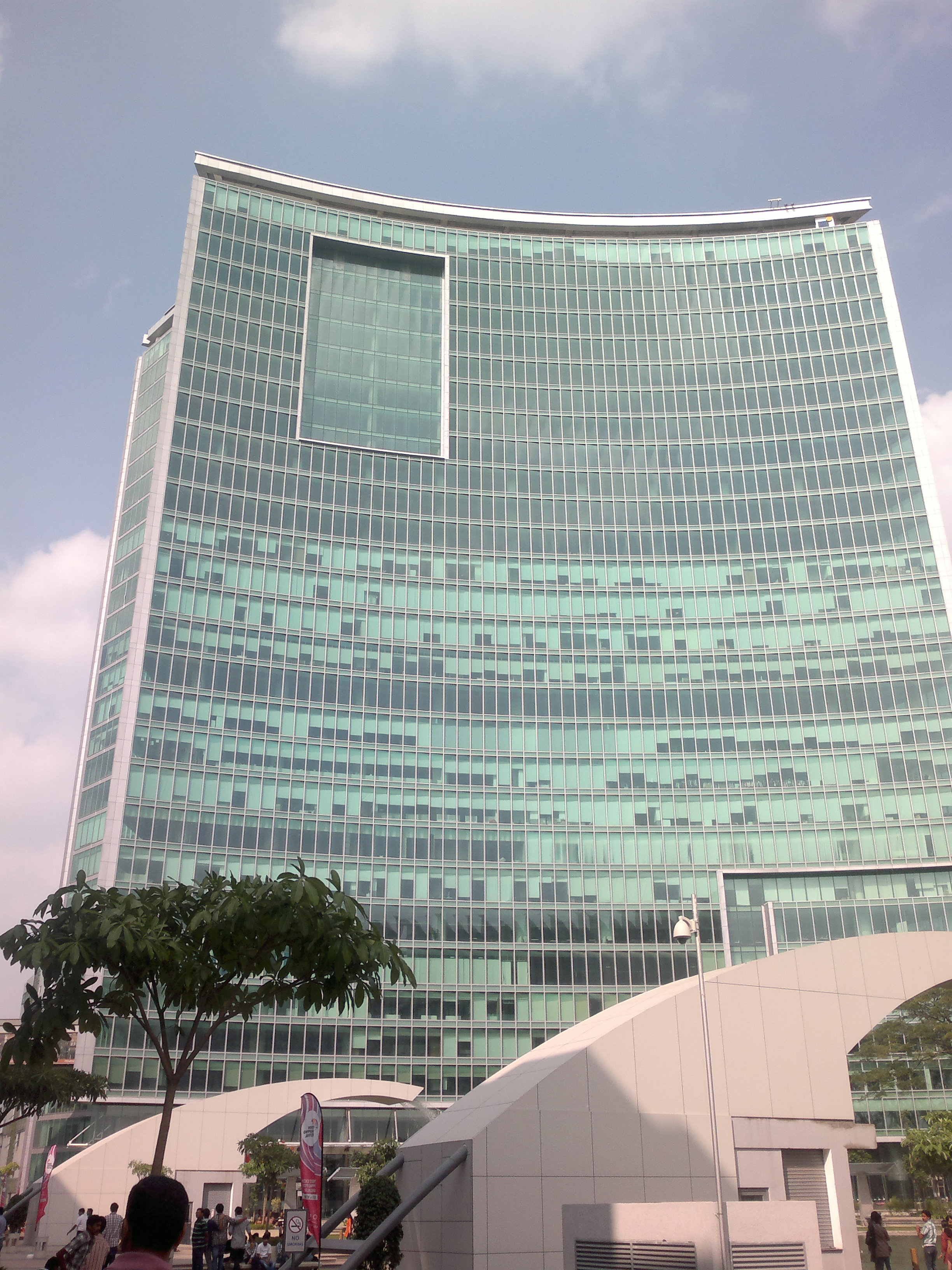 A Rear View of WTC Bangalore